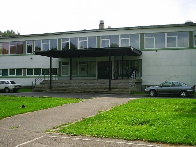 Ehte Humanitary gymnasium in Tallinn. Known as school with french language studing.